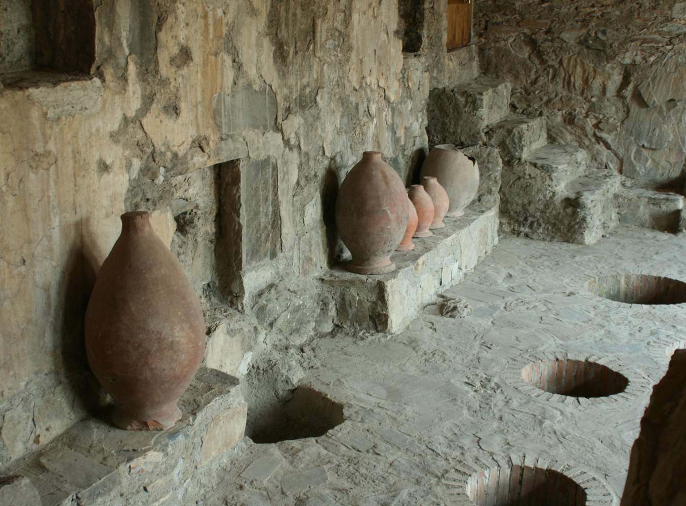 Nekresi monastery, Kakheti, Georgia